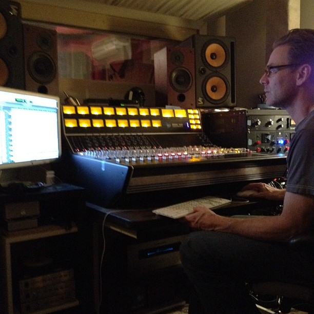 Steve Kravac mixing during The Vegas Breakdown sessions at Valley Recording in North Hollywood, Ca in december 2011